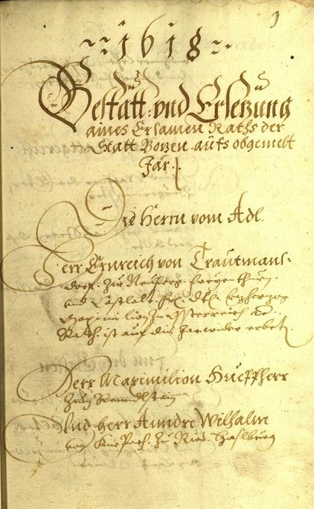 Civi Council register (minute) of the Bozen-Bolzano Burgermeister David Waffner from 1618